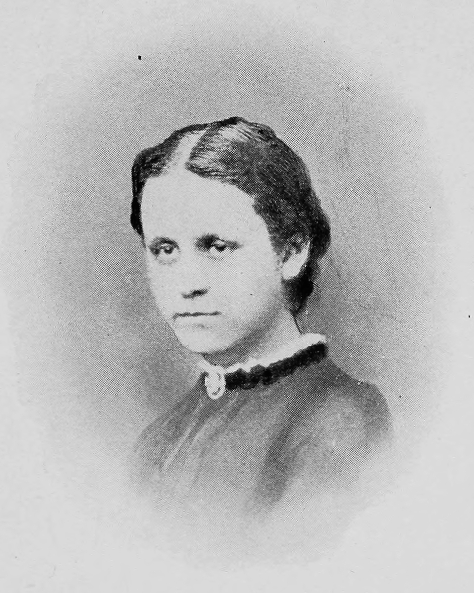 Artist Kate Greenaway at 16